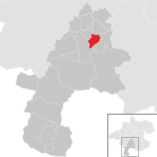 district Gmunden